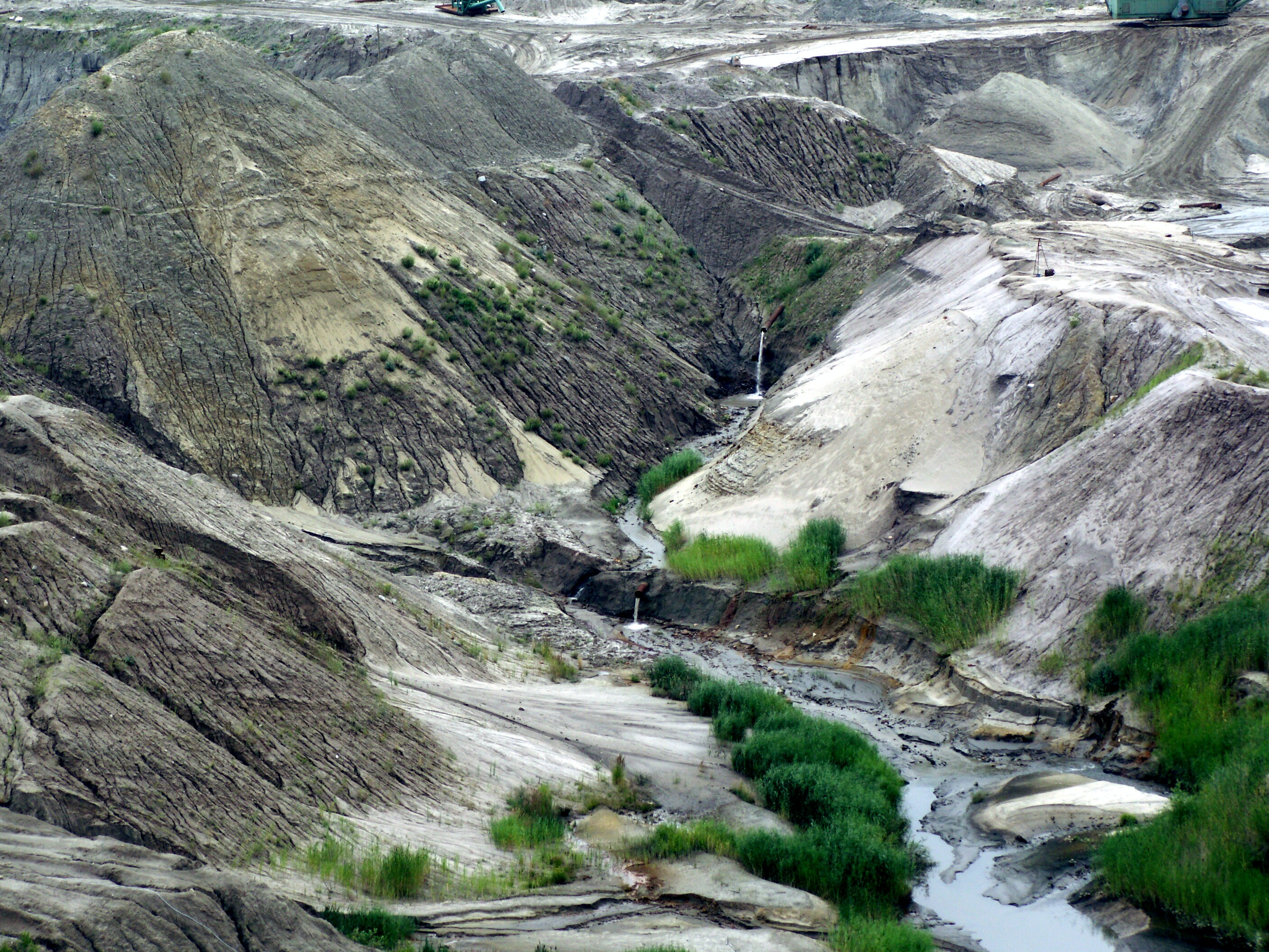 Yantarny amber factory in Kaliningrad oblast